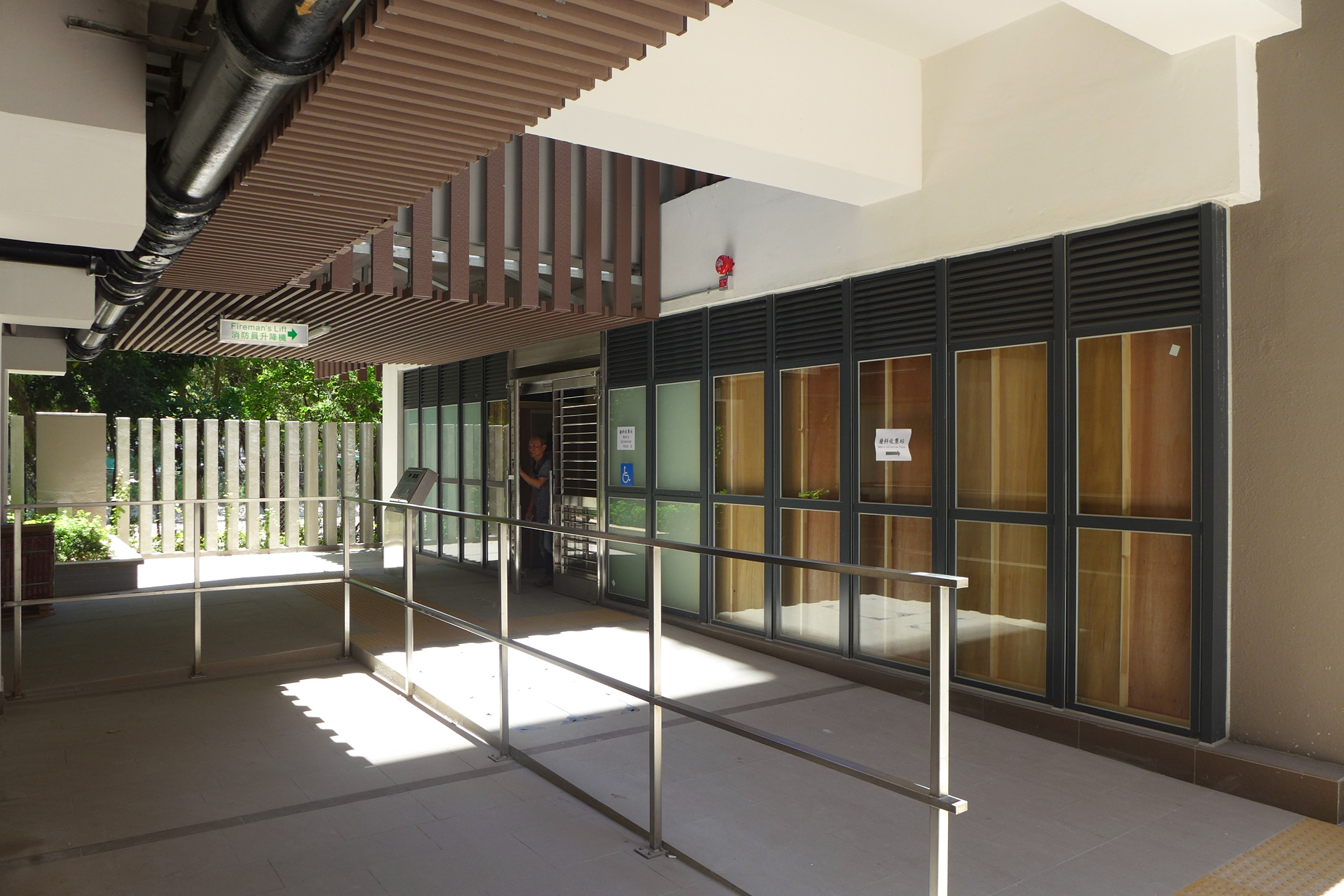 Wang Fu Court Tower Entrance